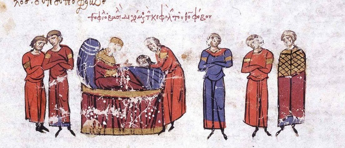 The head of Theophobos is brought to the dying emperor Theophilos in 842